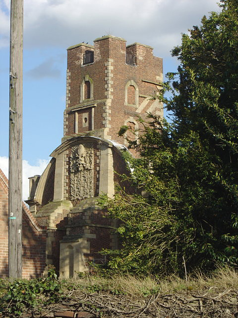 Bunny Hall - the tower This idiosyncratic piece of architecture by the owner of the time, one of the successive Sir Thomas Parkyns, dates from around 1700. The views of it have been much restricted by a new building which can be seen creeping into the left of the picture. Better views would only be available with access into the private grounds surrounding the hall.